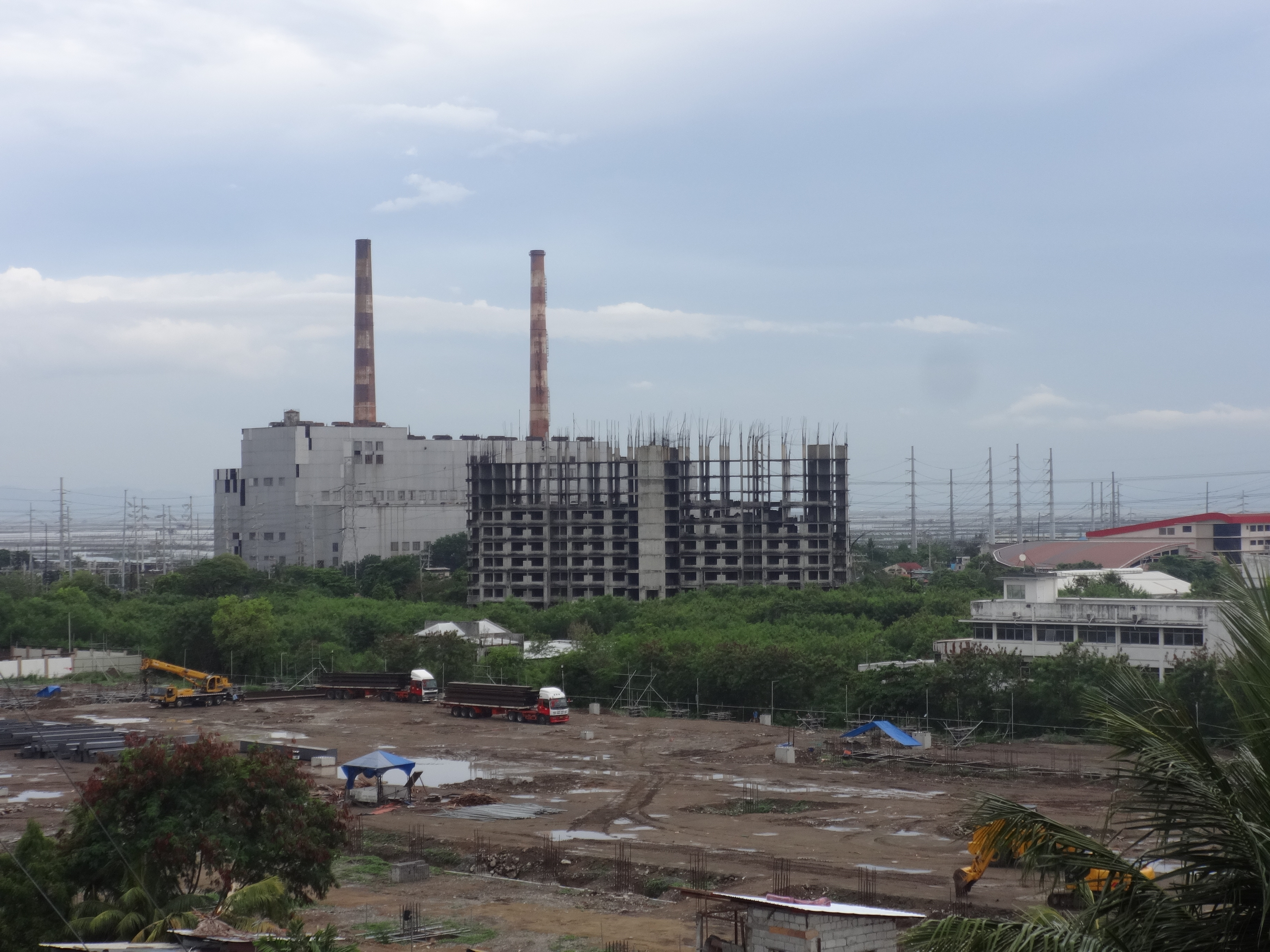 Sucat Thermal Power Plant in Muntinlupa City